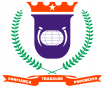 Coat of arms of Ipatinga, Minas Gerais, Brazil.